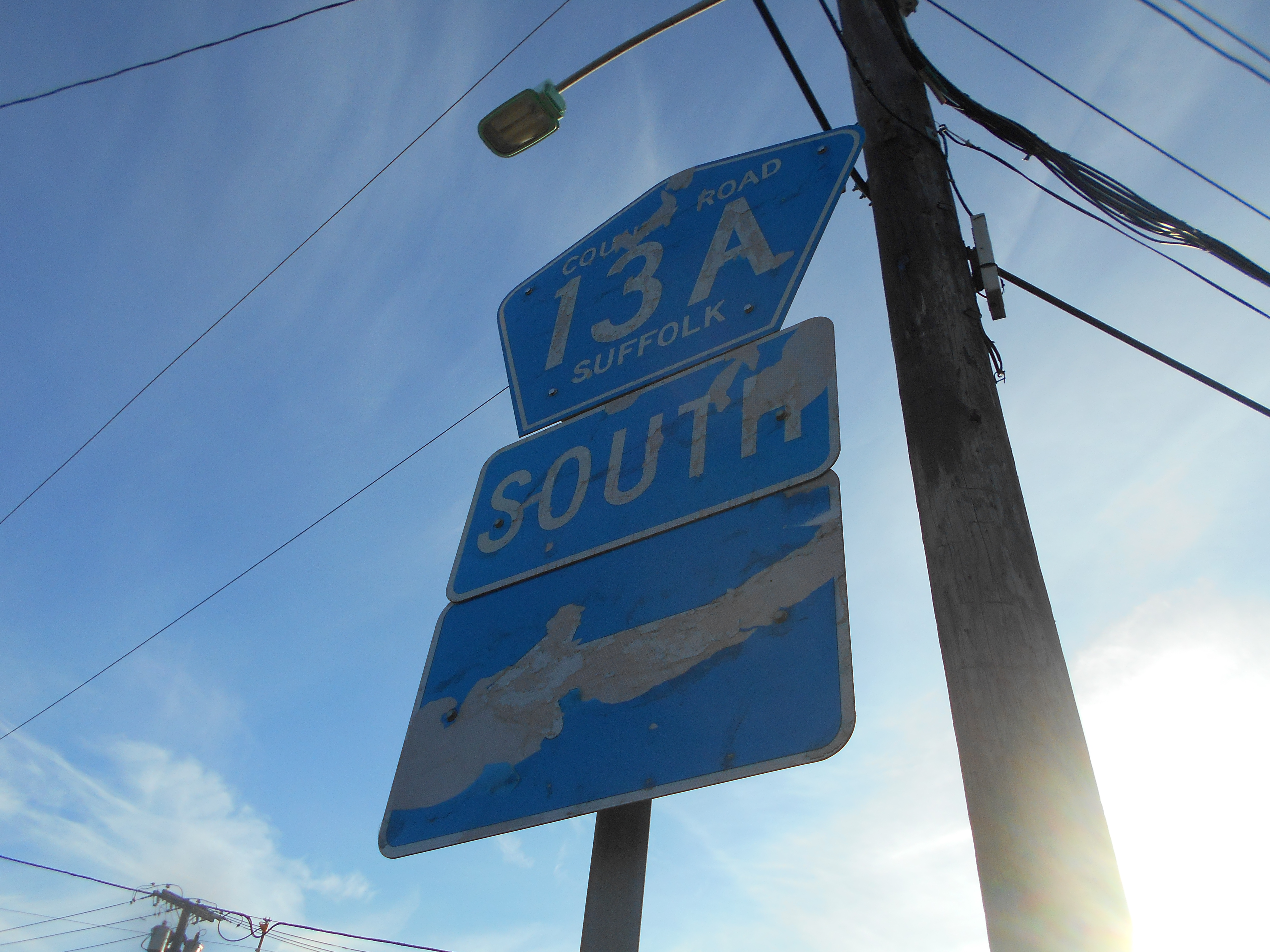 Old signage for County Route 13A on County Route 50 in Bay Shore, New York.